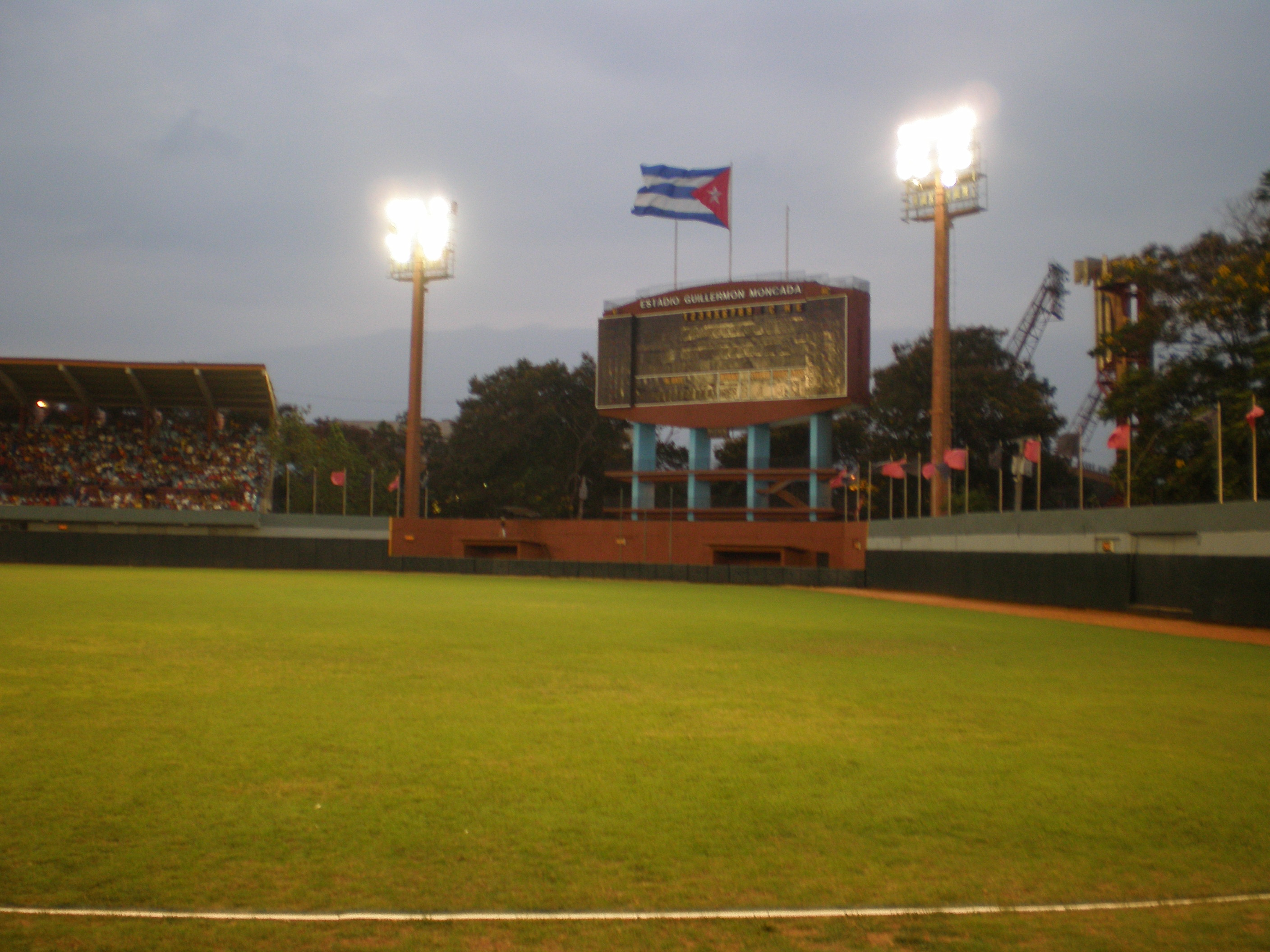 Stadio Guillermon Moncada. Home of the Santiago de Cuba baseball team.